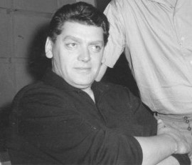 German opera singer Heinz Hoppe, seated, in 1963